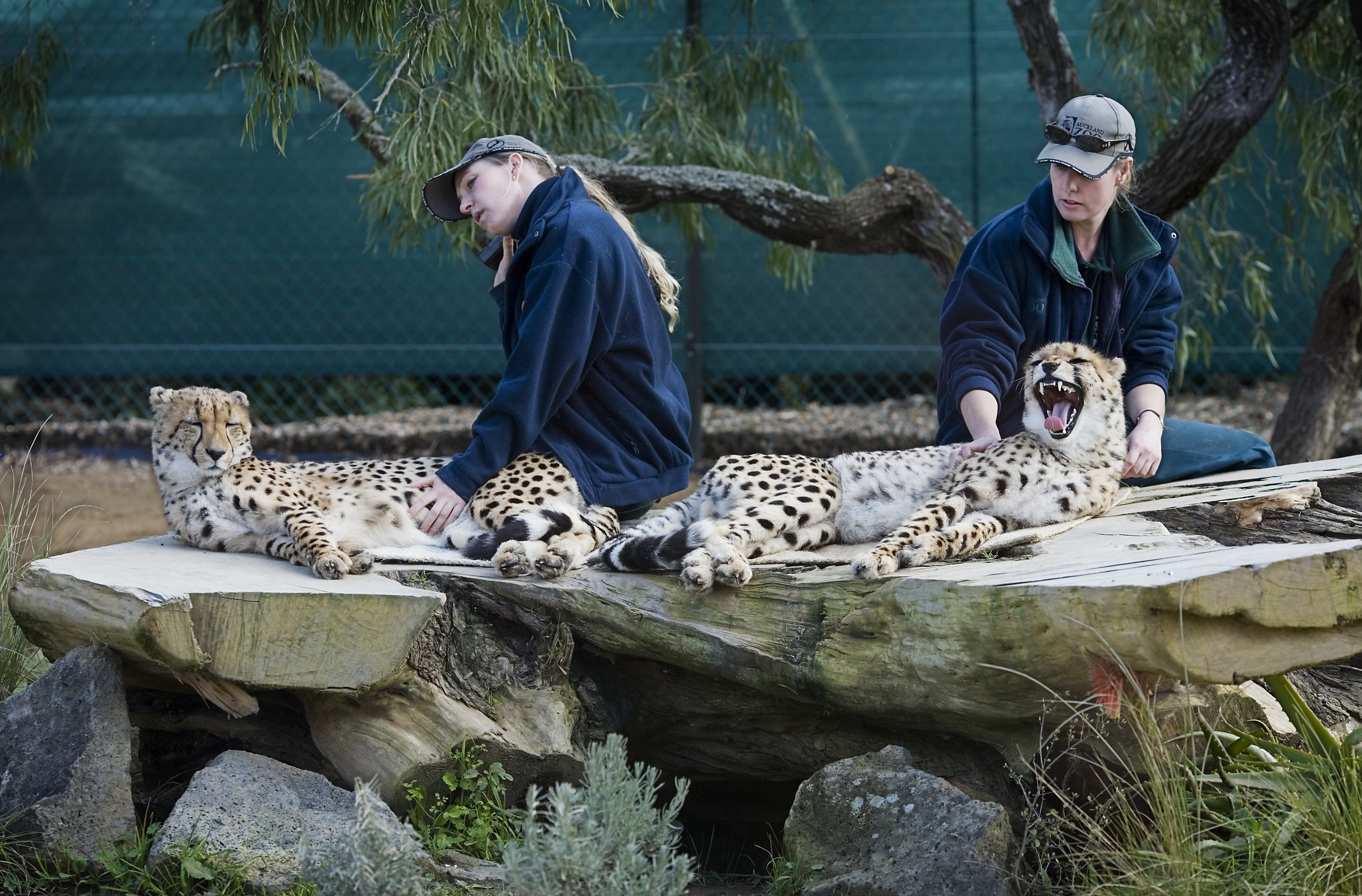 Two young pretty zookeepers taking care and petting two cheetahs in the Auckland zoo, Auckland, New Zealand